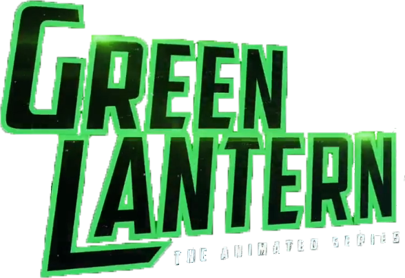 Official header of animated series "Green Lantern: The Animated Series".